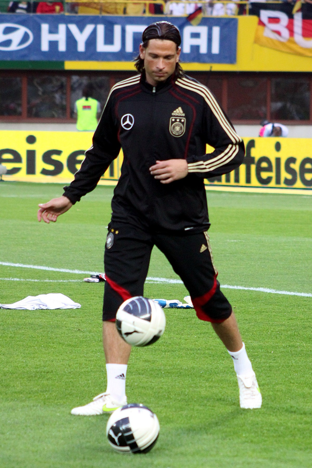 Tim Wiese (Werder Bremen), german national football team